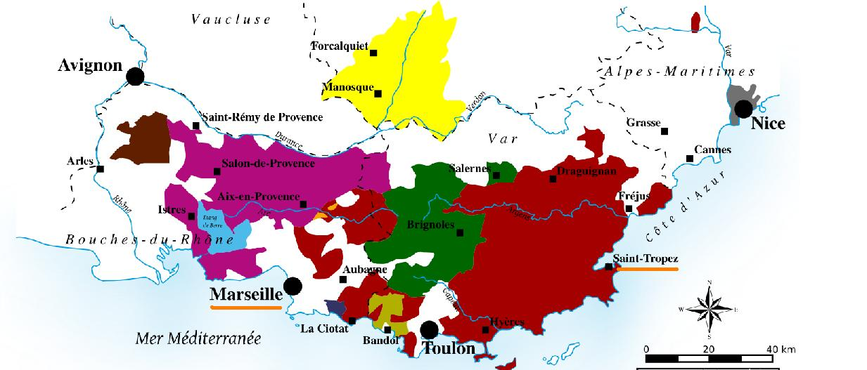 Wine-growing areas of Provence